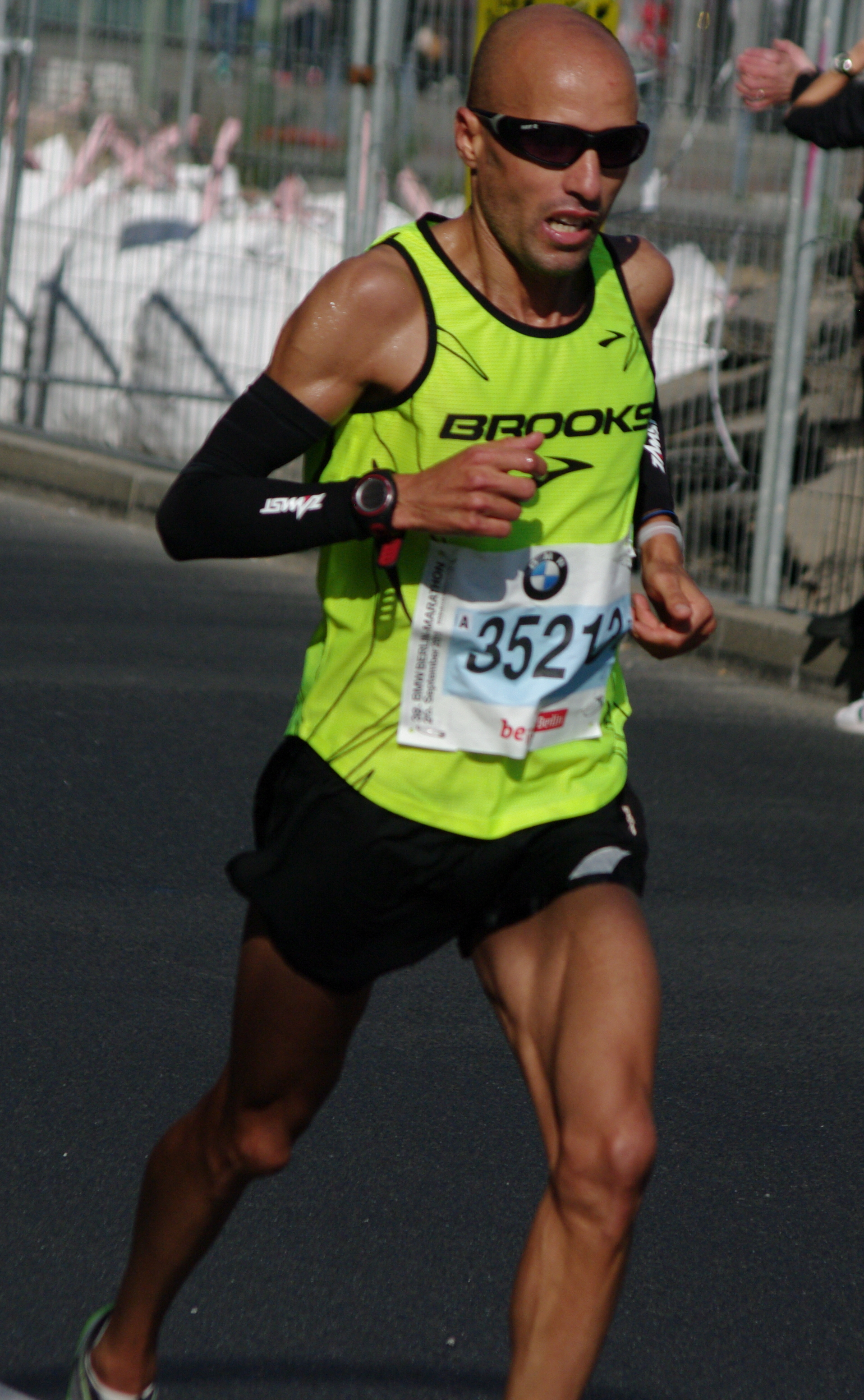 Hamid Belhaj running the Berlin Marathon 2011. Here at Kilometer 34, Tauentzienstraße